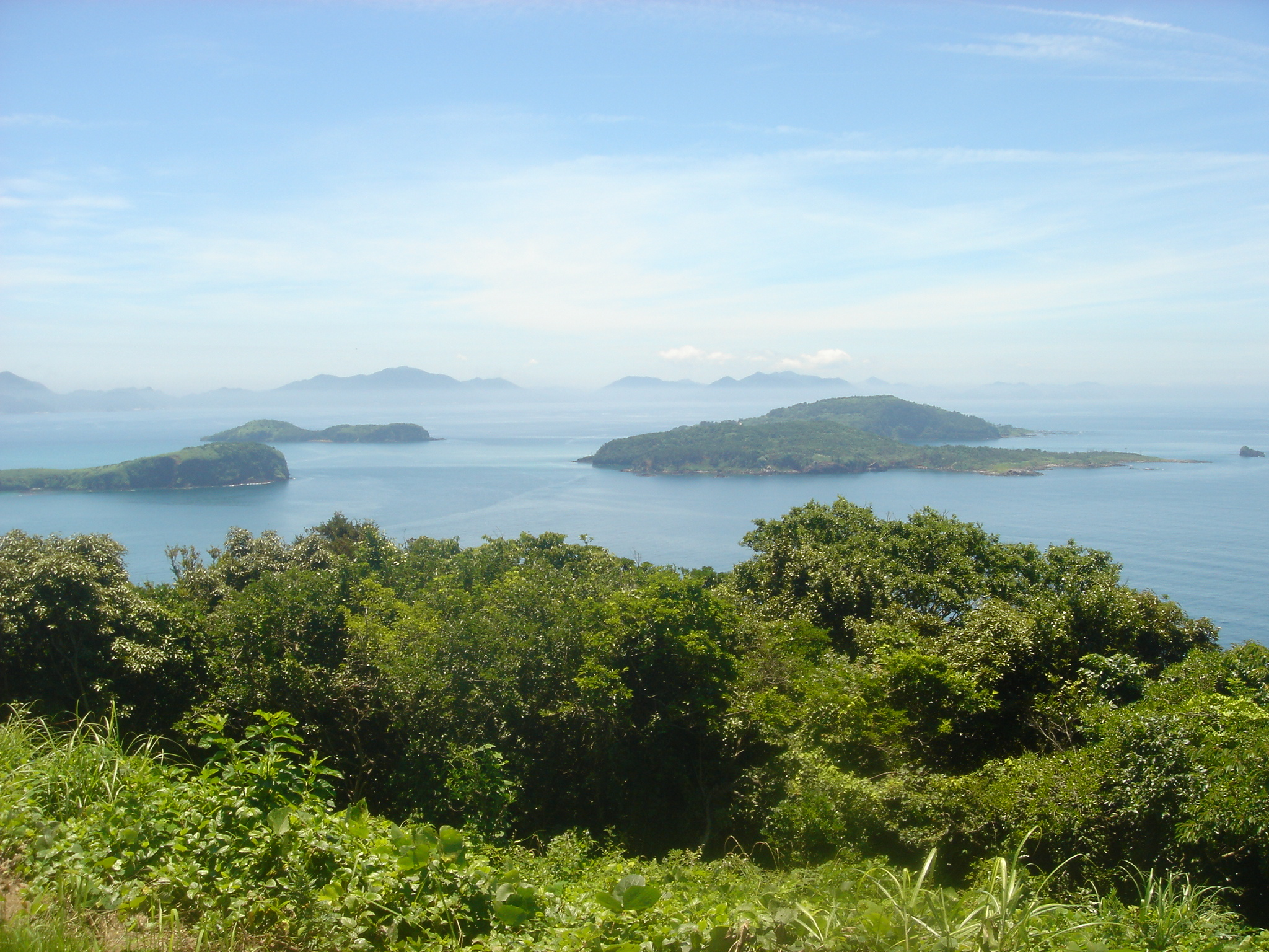 A picture of several of the Ojika Islands, taken from the main island near the Matubara park.